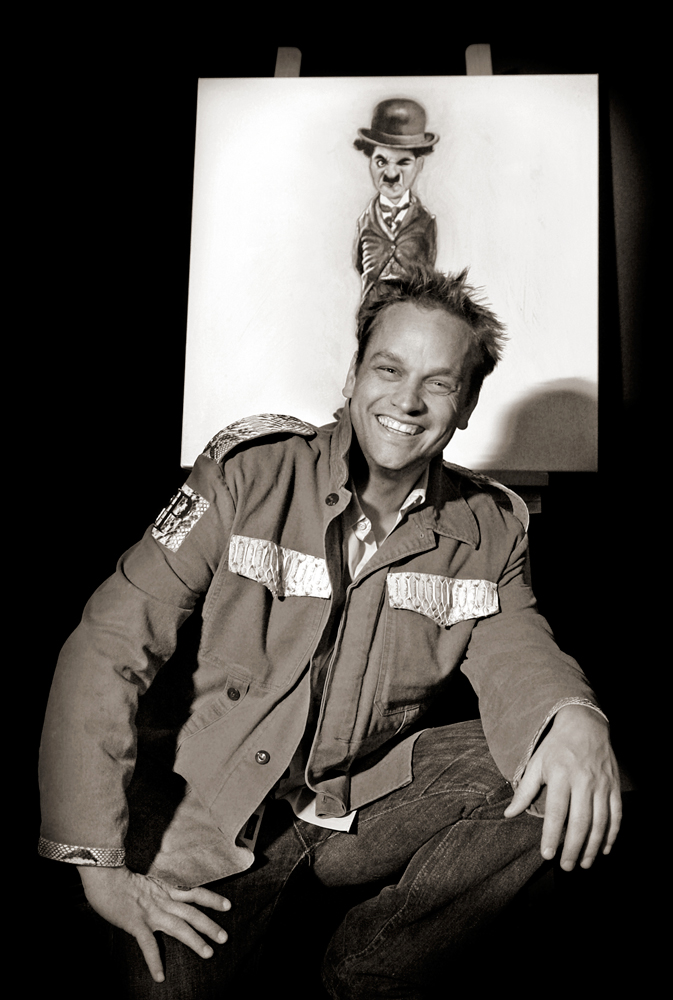 pop surrealist Bernhard Prinz i